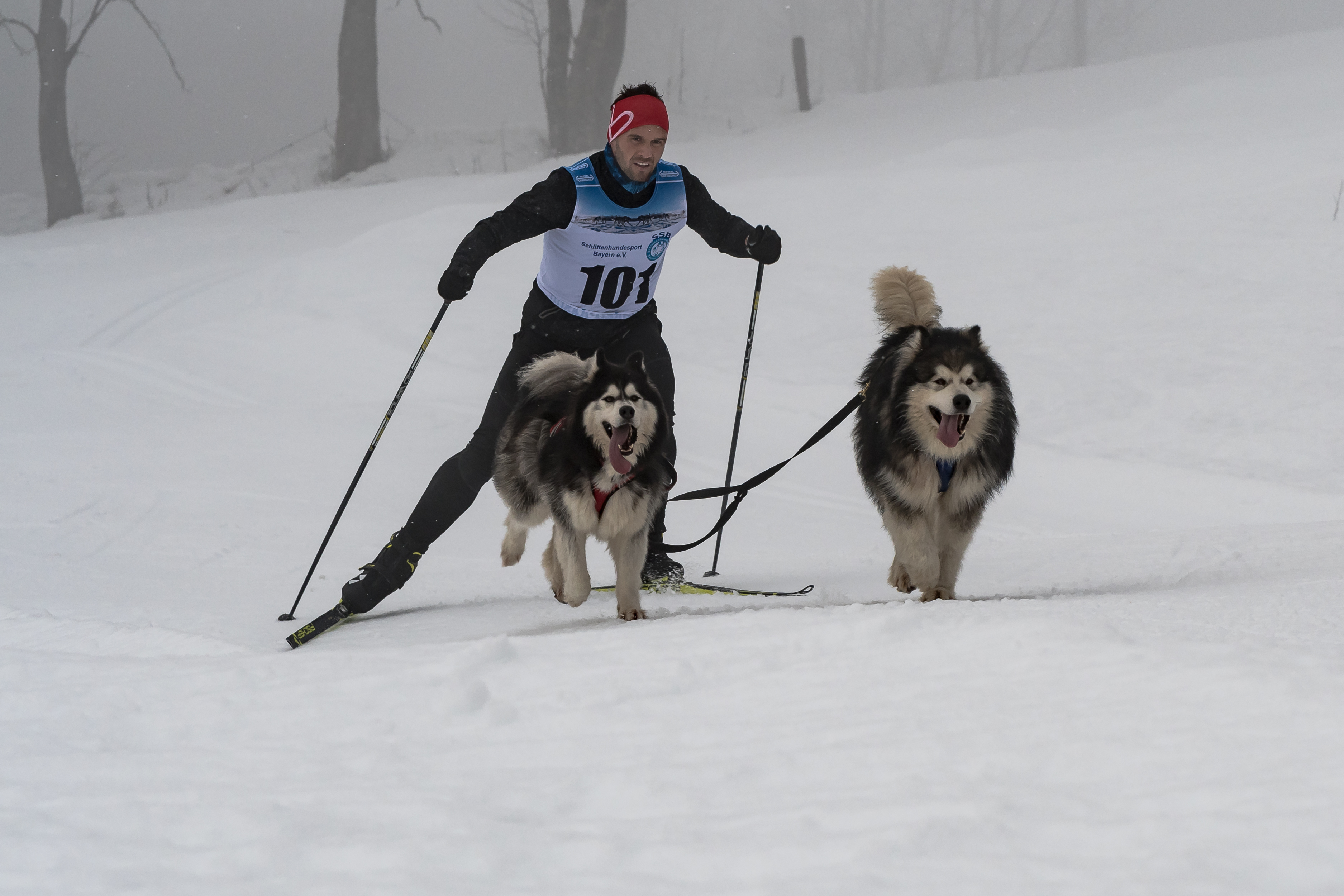 22. Int. Schlittenhunderennen in Werfenweng, January 13 and 14, 2018; Skijoring 2 / Dogs category 1 (Siberian Husky)/ Florian Haushammer